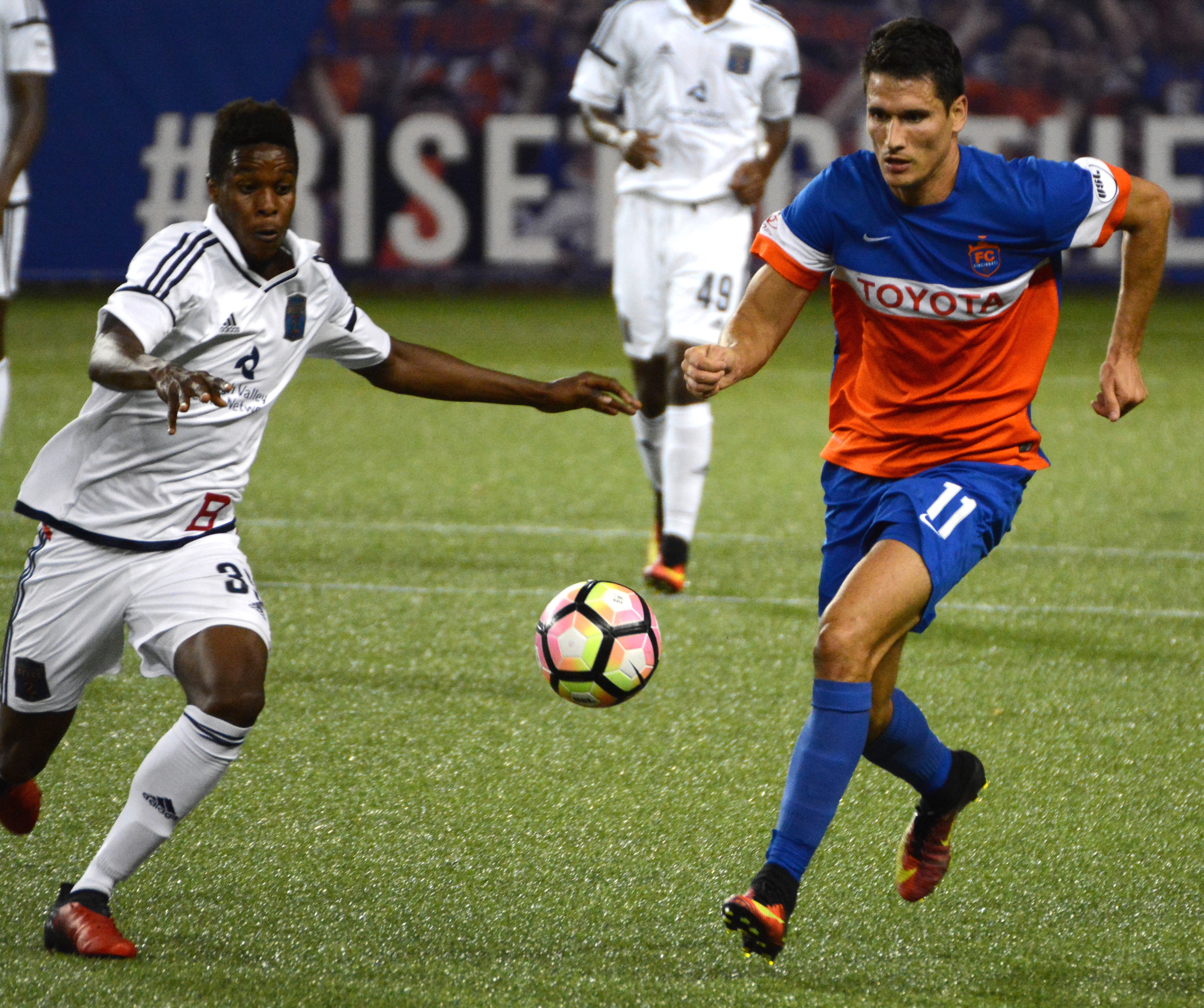 Amoy Brown, Danni König Taken during a match between FC Cincinnati and Bethlehem Steel FC at Nippert Stadium in Cincinnati, USA on May 20, 2017.